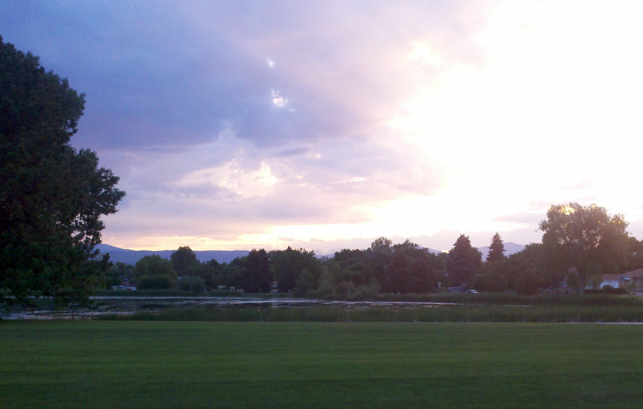 View west toward the mountains on the South Vallejo side of Huston Lake Park in Denver, CO.